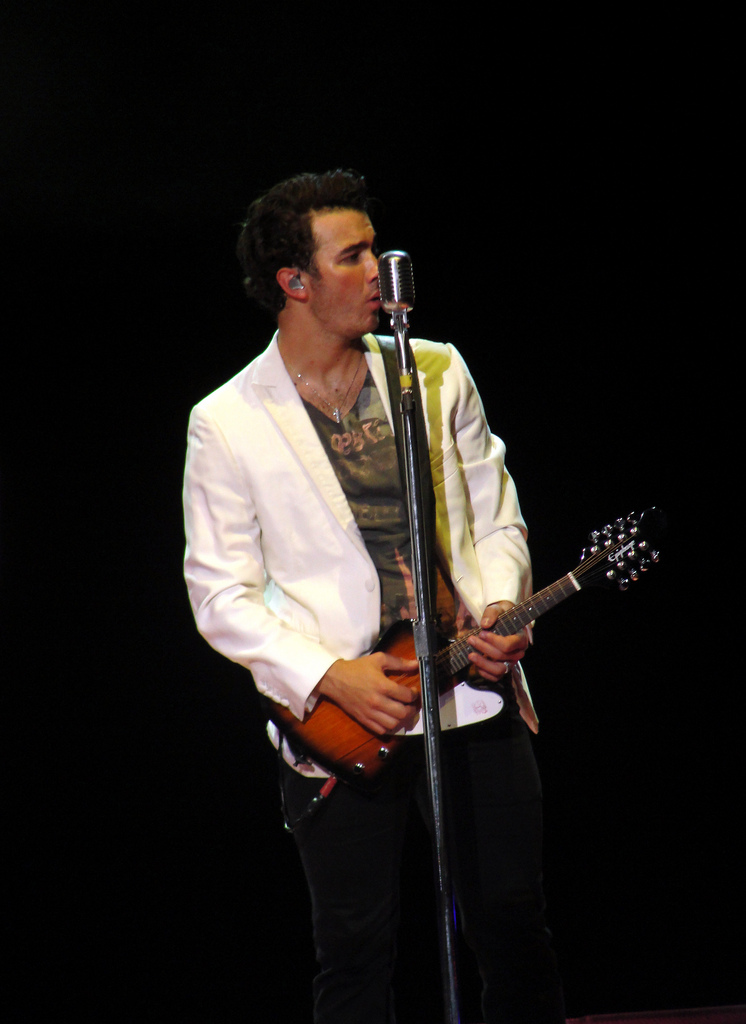 Jonas Brothers Live In Concert and The Cast of Camp Rock 2, September 2nd, 2010.